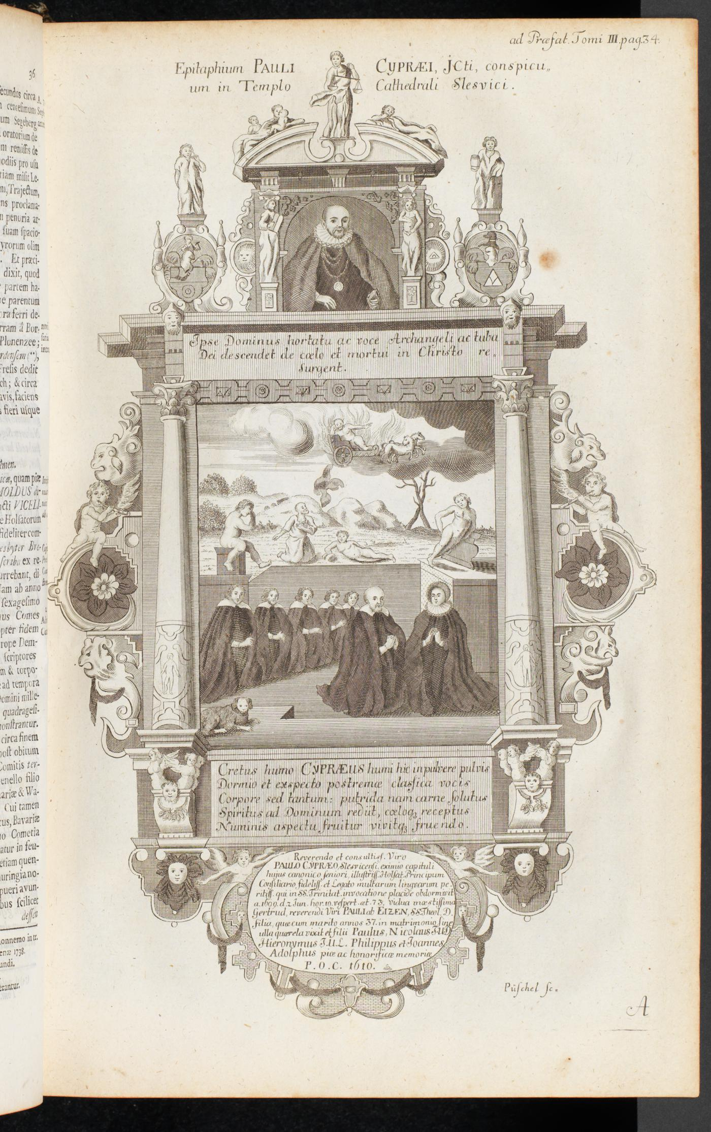 Drawing of Epitaph for Poul Cypræus in Schleswig Cathedral, in: Monumenta inedita rerum Germanicarum praecipue Cimbriacarum et Megapolensium : quibus varia antiquitatum, historiarum, legum iuriumque Germaniae, speciatim Holsatiae et Megapoleos vicinarumque regionum argumenta illustrantur, supplentur et stabiliuntur ; cum tabulis aeri incisis / e codicibus ... studuit ... et cum praefatione instruxit Ernestus Joachimus de Westphalen .. Band 3, Lipsiae: Martin 1739